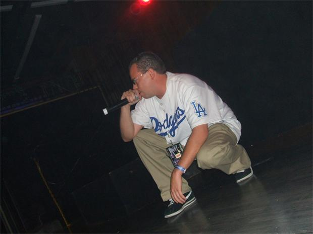 Serio at a concert in 2009.